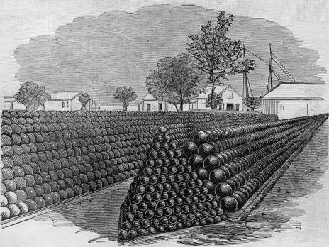 Shot and shell piled under the walls of Fortress Monroe